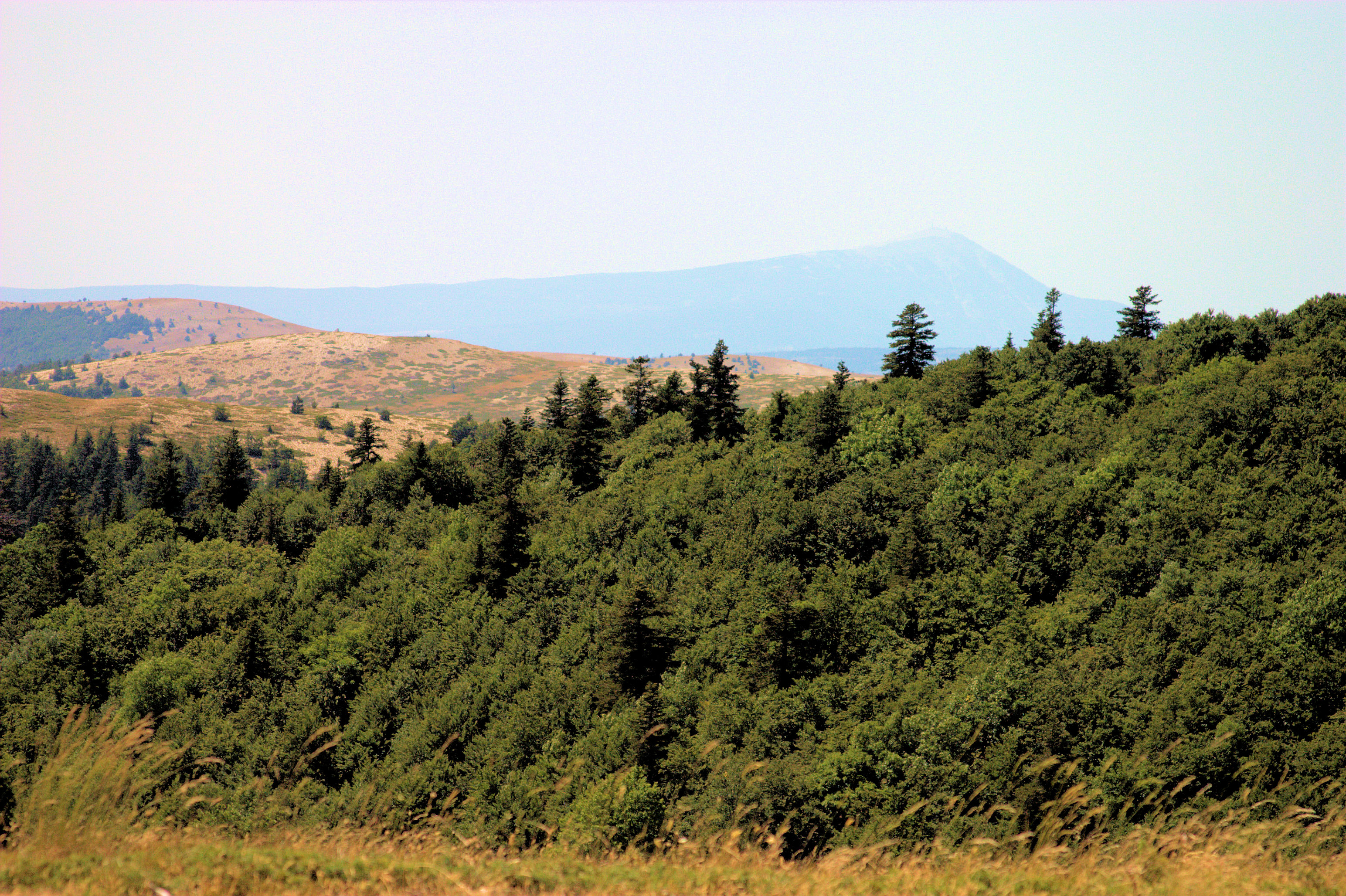 Lure mountain - View on the Ventoux